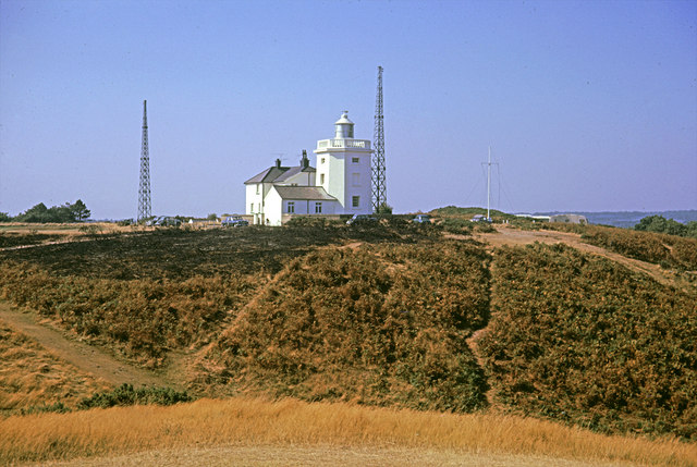 Cromer Lighthouse, Norfolk taken 1964 Before the erection of a lighthouse at Cromer, lights for the guidance of vessels were shown from the tower of the parish church; these were small, but served a useful purpose for many years. A number of ecclesiastical lights such as this were exhibited around the coast in medieval times.